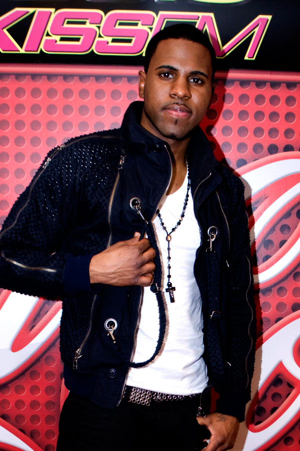 Jason Derulo at 103.5 KISS FM Chicago Coca Cola Lounge, photo by Adam Bielawski